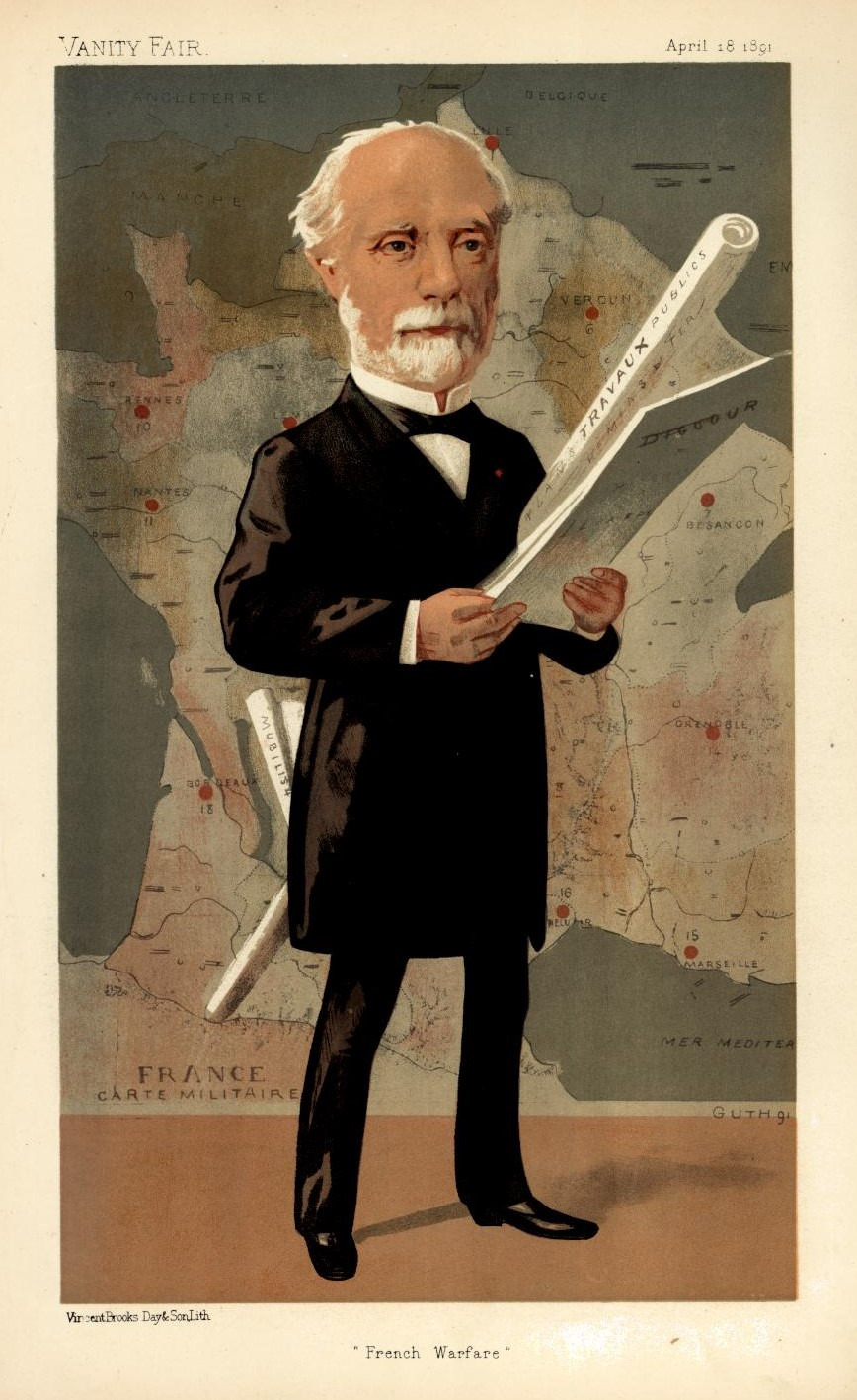 Caricature of M C de Freycinet. Caption read "French Warfare".